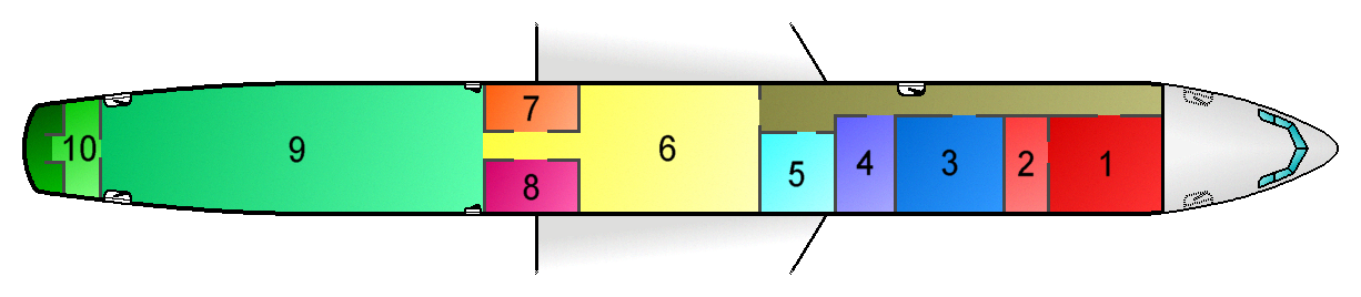 Drawing of the new presidential plane for the French Republic President, in 2010.